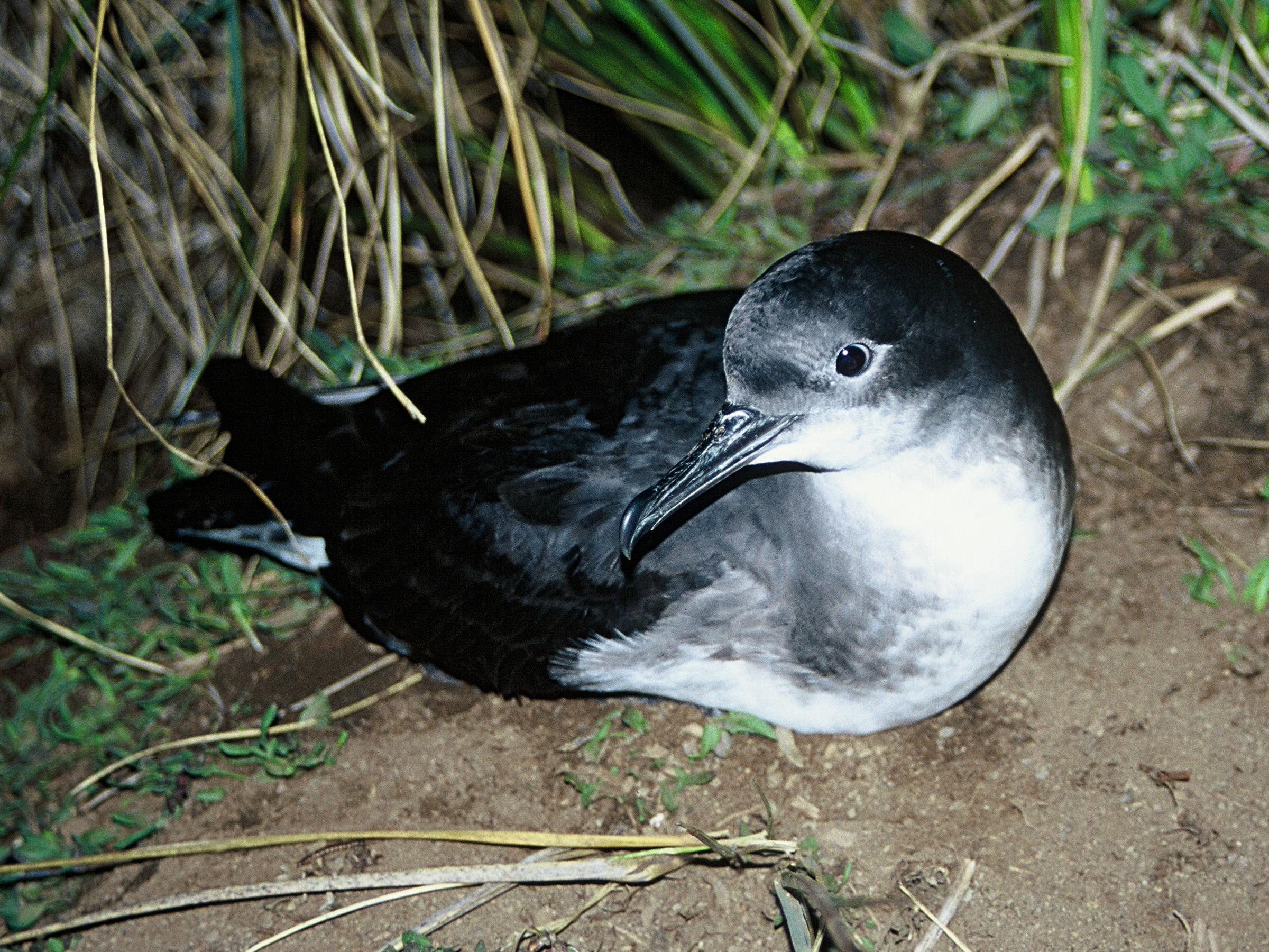 Hutton's Shearwater (Puffinus huttoni) Māori: Kaikoura tītī